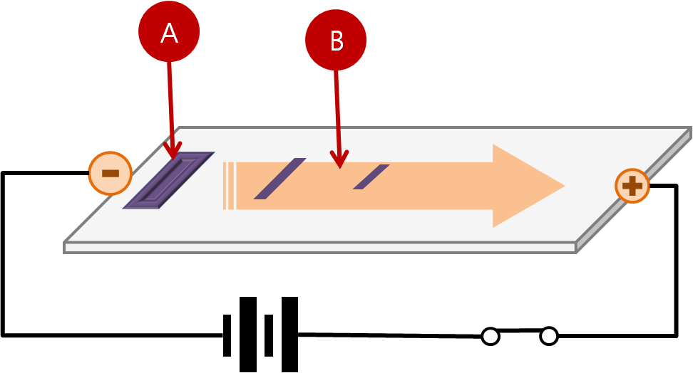 This image explains gel electrophoresis procedure.